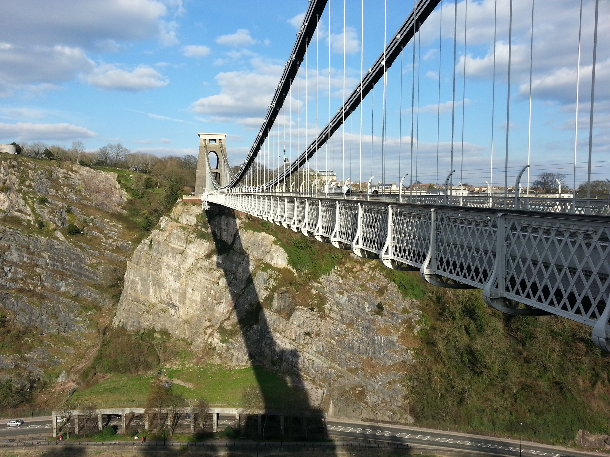 Clifton Bridge